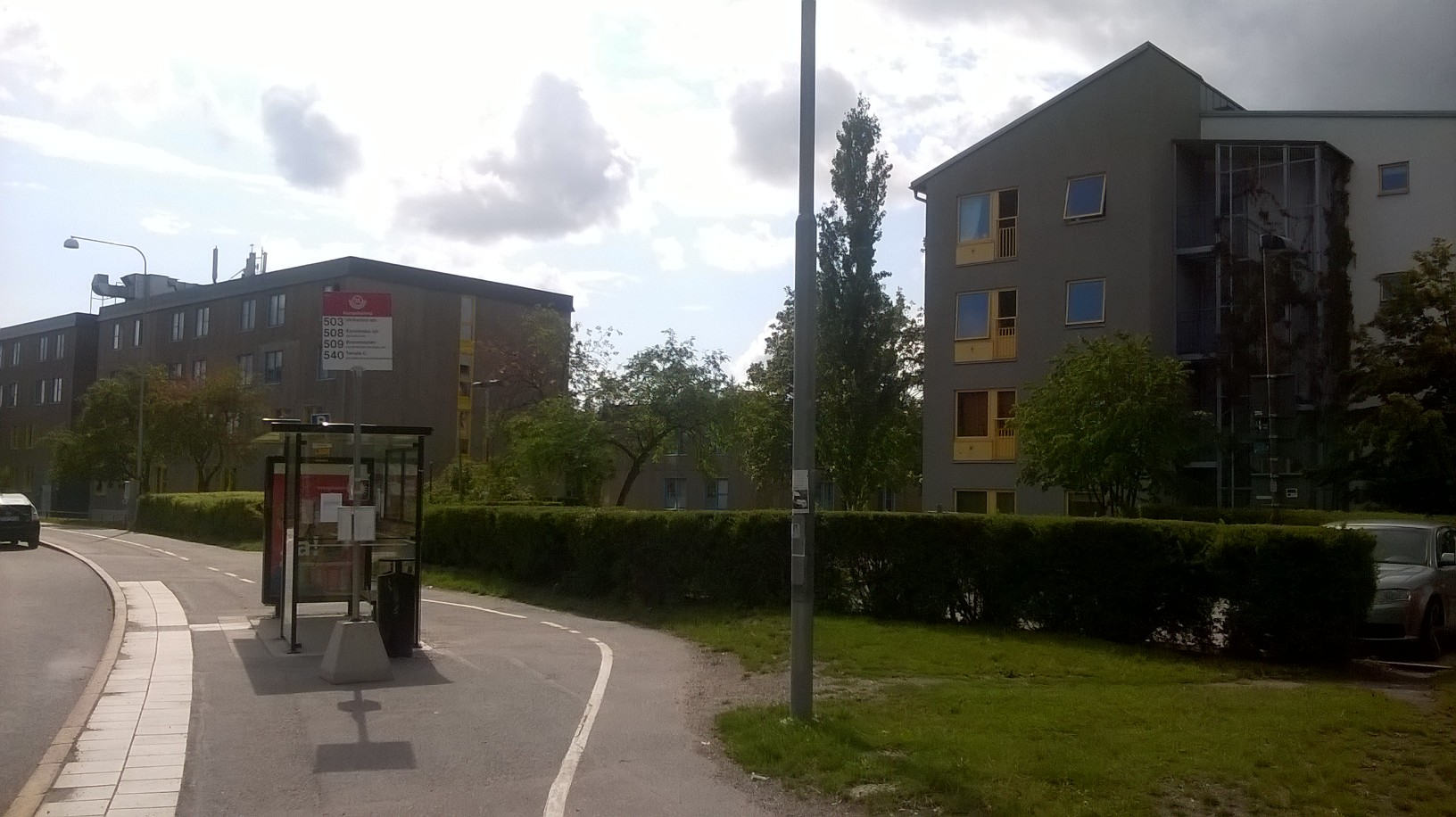 This is a photo taken in Kungshamra, Solna ,Sweden, showing the Kungshamra bus stop and some of the buildings in Kungshamra. The photo was taken on July 22, 2019.